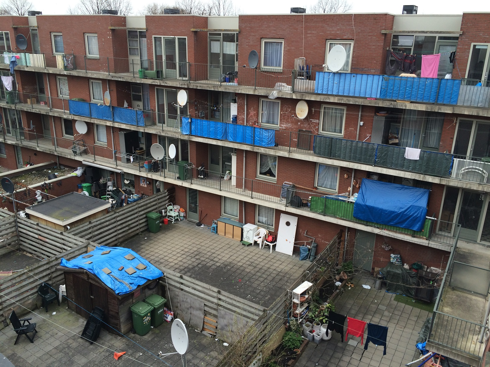 Rear side of public housing on the 's-Gravenzandelaan in The Hague (Netherlands).